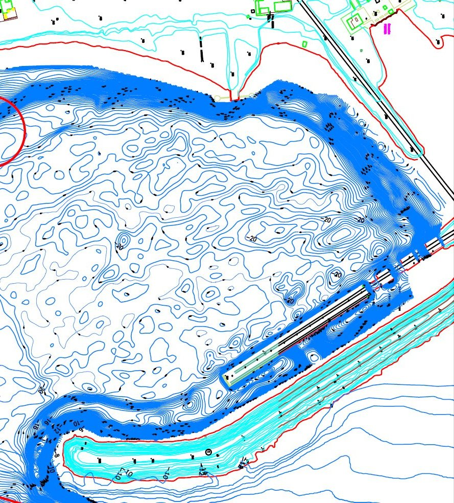 Spanish harbour bathimetry with isobaths lines.